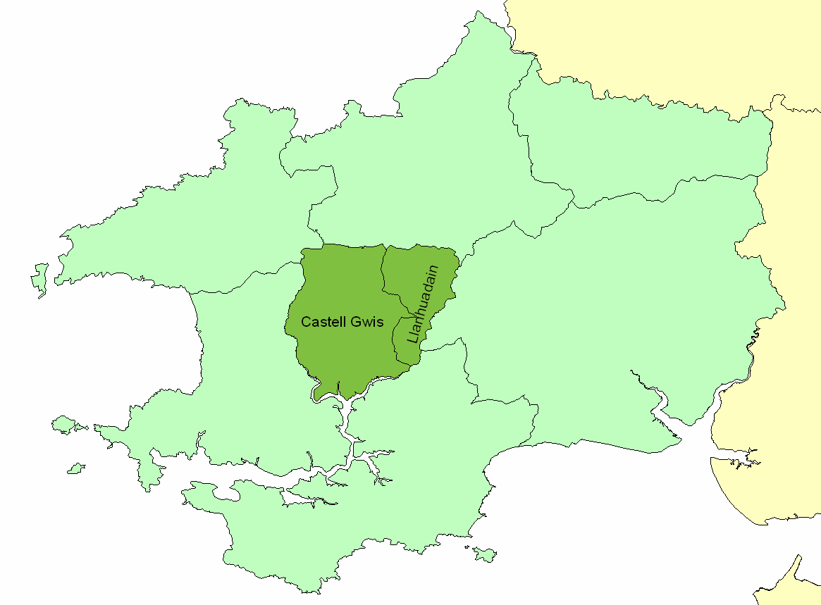 Map of the cantref of Deugleddyf in relation to ancient Dyfed, showing the Norman lordships mis-named "commotes"